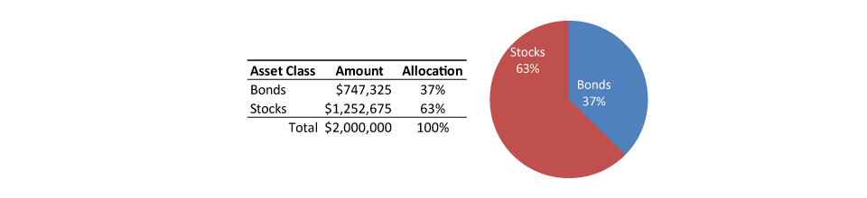 Asset Dedication - Wikipedia - Dedicated Portfolio Theory - Table 3.1